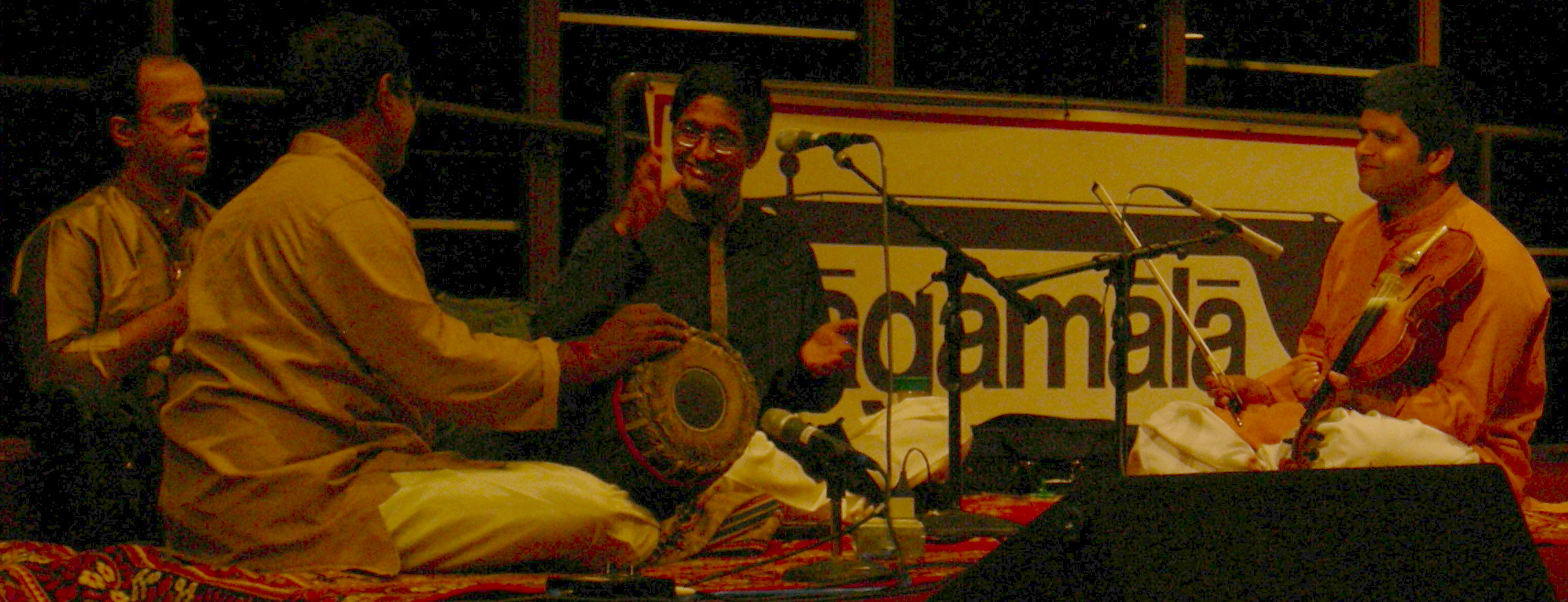 Carnatic vocalist Abhishek Raghuram, in concert at Eastshore Unitarian Church, Bellevue, Washington, accompanied by Mysore K. Srikanth (violin), Ganapathy Raman (mridangam), and Dr. Ravi Balasubramanian (ghatam). Part of the Seattle-area Ragamala concert series. This is one of a series of photos I (Joe Mabel) took on that occasion. It was not ideal shooting conditions for my inexpensive digital camera, which only shoots at about the equivalent of ISO 400 at most. In general, I underexposed (in various degrees) to avoid too much motion blur, planning to fix what I could in postprocessing. About 60 images have been uploaded to the Wikimedia Commons. In each case, the raw version is uploaded and, in most cases, one (or occasionally two) versions that are colormapped lighter (and sometimes bluer) and, in about half the cases, cropped.